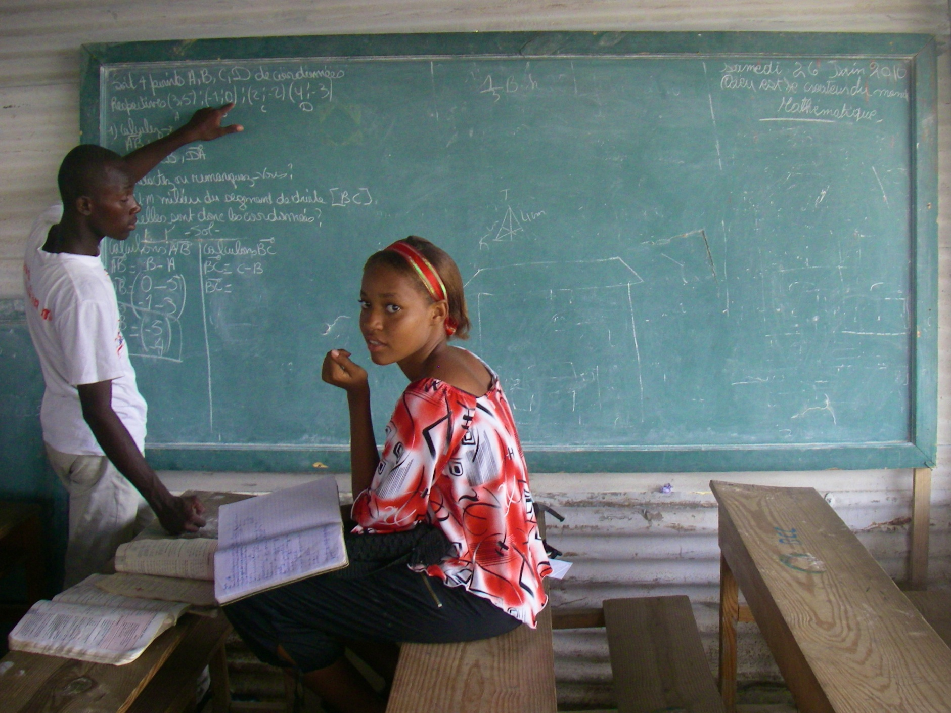 Sun City) is a very densely populated commune located in the Port-au-Prince metropolitan area in Haiti. The lawless Cite Soleil is regarded by many as one of the most dangerous places on earth. It was developed as a shanty town. Most of its estimated 200,000 to 400,000 residents live in extreme poverty.[1] The area is generally regarded as one of the poorest and most dangerous areas of the Western Hemisphere's poorest country; it is one of the biggest slums in the Northern Hemisphere. There is little to no police presence, no sewers, no stores, and little to no electricity.[2]The neighborhood, originally designed to house manual laborers for a local Export Processing Zone (EPZ), quickly became home to squatters from around the countryside looking for work in the newly constructed factories. After a 1991 coup d'état deposed President Jean-Bertrand Aristide, a boycott of Haitian products closed the EPZ.[3] Cité Soleil was soon thrust into extreme poverty and persistent unemployment, with high rates of illiteracy.[2]Armed gangs roam the streets. Murder, rape, kidnapping, looting, and shootings are common as every few blocks is controlled by one of more than 30 armed factions.[4] The area has been called a "microcosm of all the ills in Haitian society: endemic unemployment, illiteracy, non-existent public services, insanitary conditions, rampant crime and armed violence".[5]After the 2010 Haiti earthquake, it took nearly two weeks for relief aid to arrive in Cité-Soleil.[6] Although the US military have willingly accepted their new role, their relief efforts have been criticized by some as insufficient.[7]" "